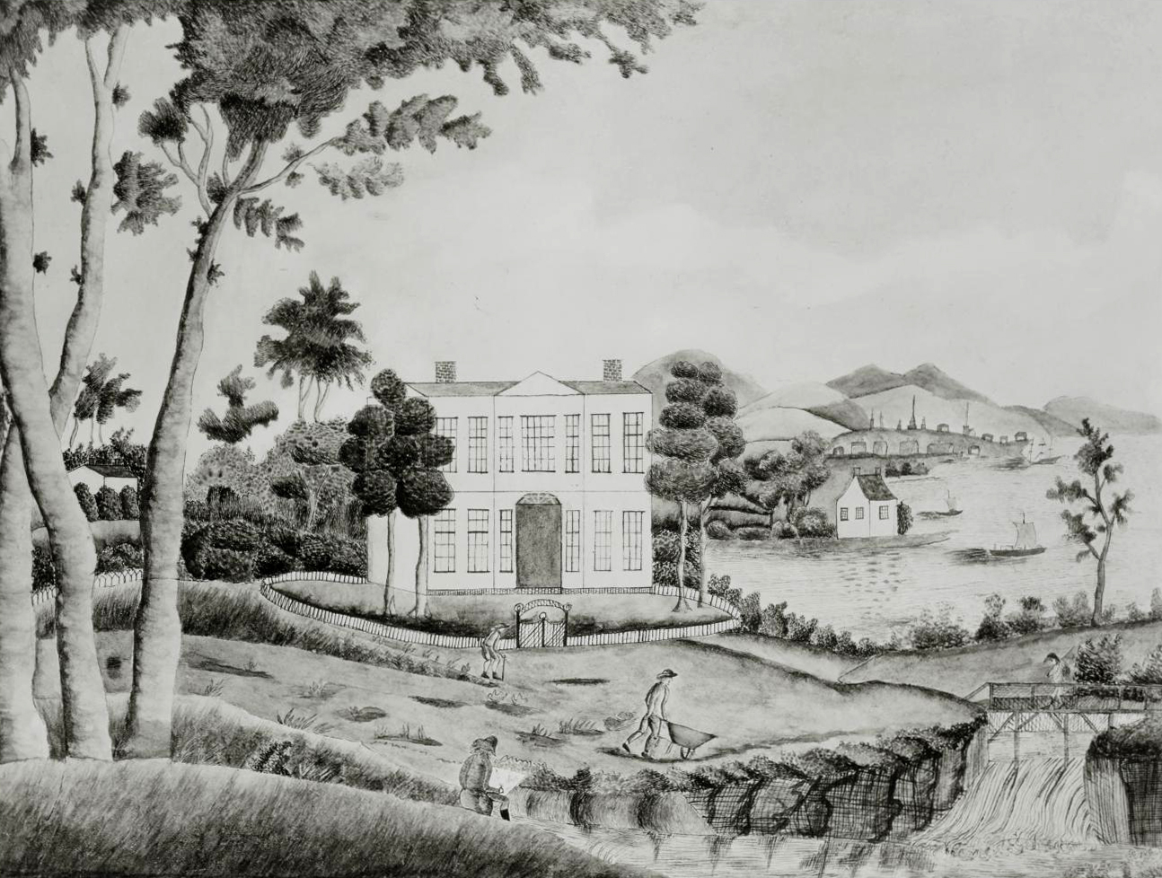 Reproduction of a watercolor.